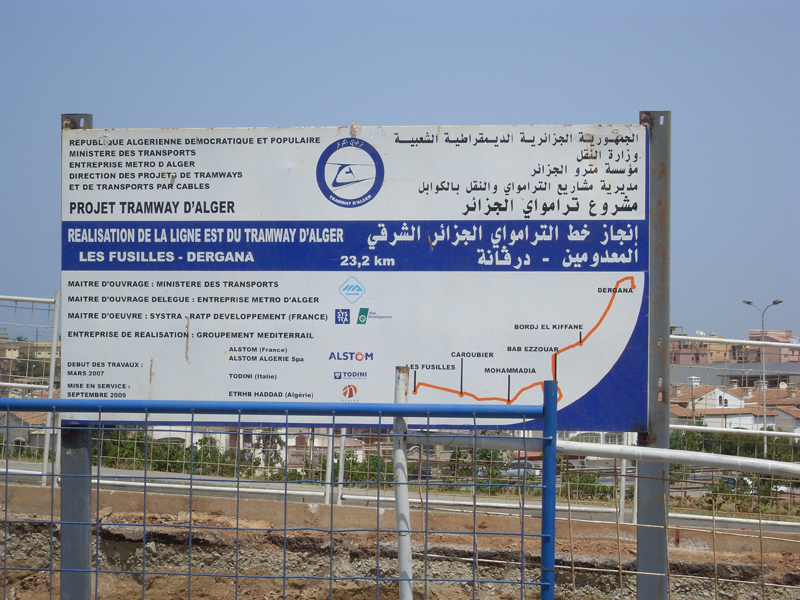 Construction work on the Algiers tramway